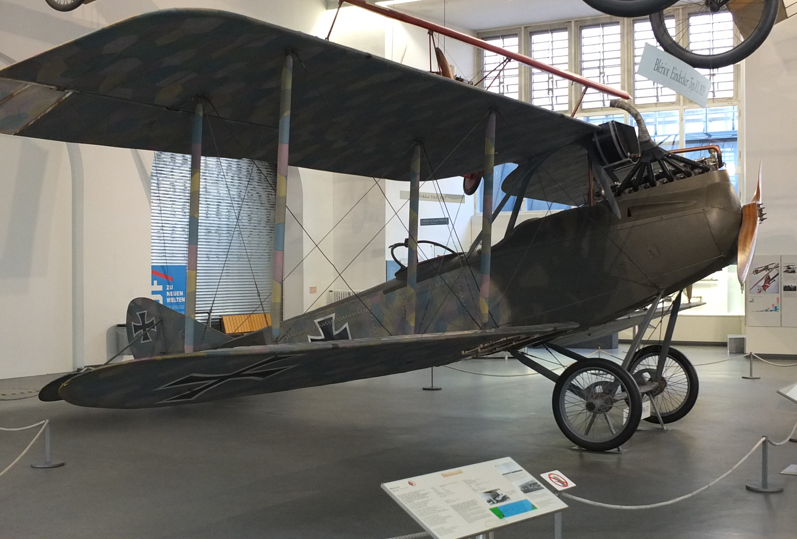 The Rumpler C.IV was a German single-engine, two-seat reconnaissance biplane.